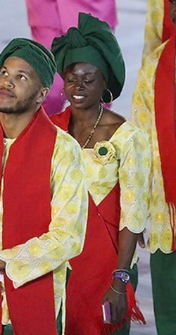 Benin at the 2016 Summer Olympics opening ceremony